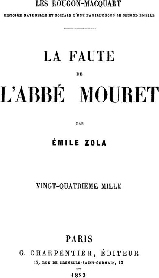 The Sin of Father Mouret (1876) by Émile Zola (1840-1902)